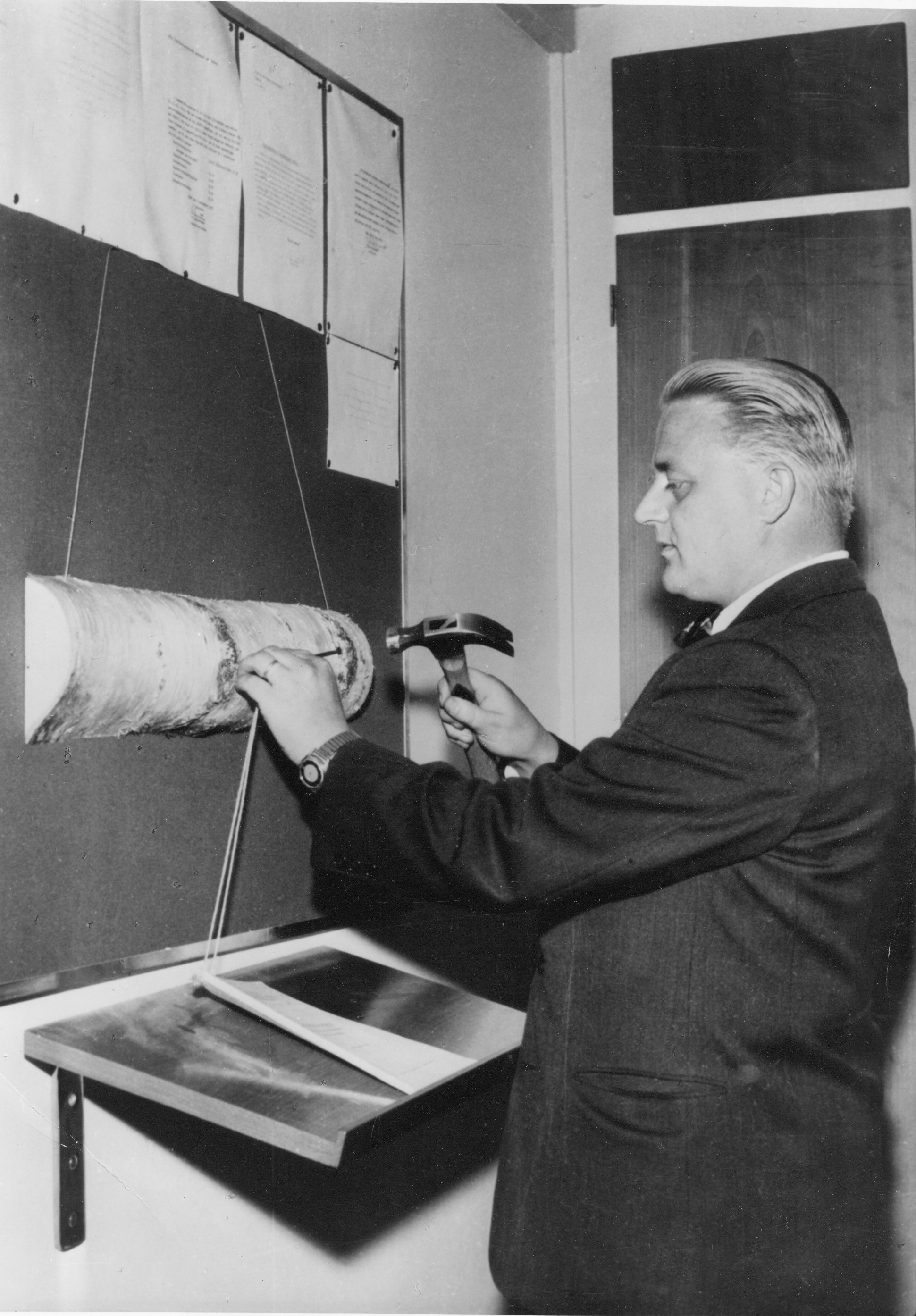 Arne Wennström nails his thesis of Dentistry doctorate, the first north of Uppsala, in 1958.